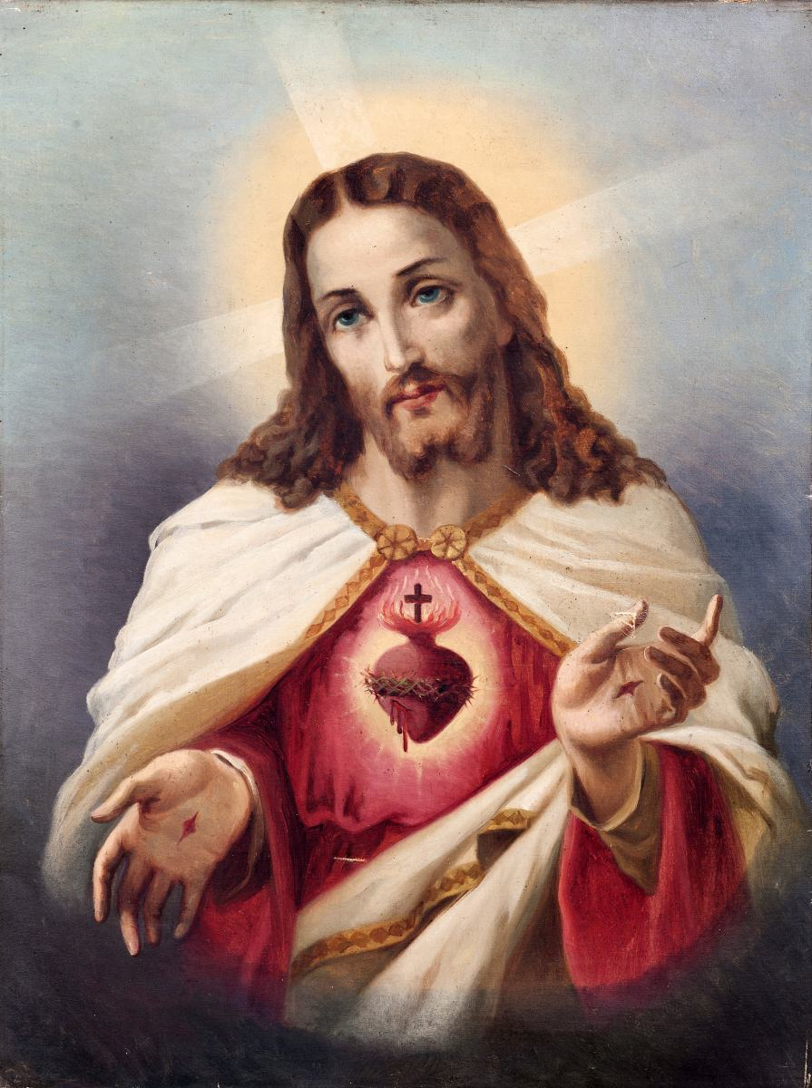 Sacred Heart of Jesus, oil on canvas - 19th-century Portuguese school.